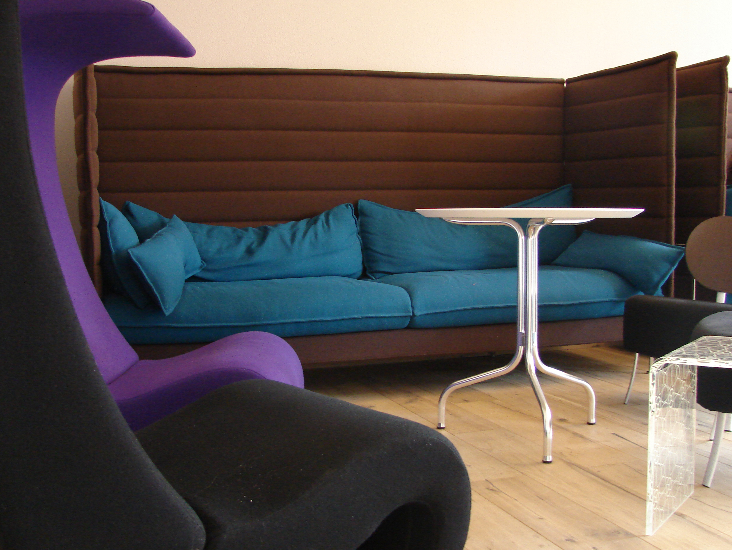 Liberal Arts and Sciences at Tilburg University- the Common Room